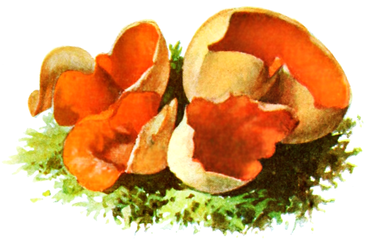 Aleuria aurantia.